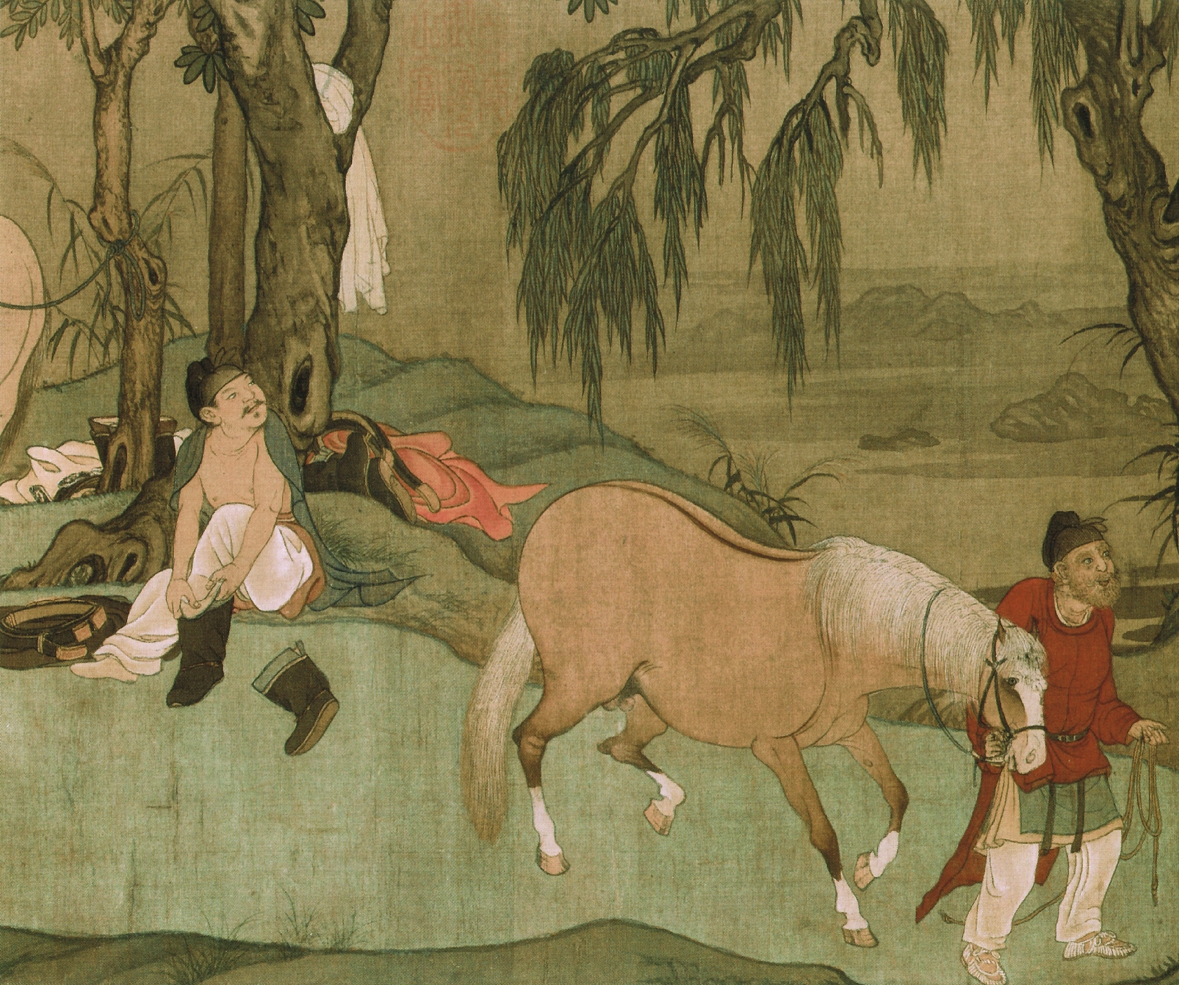 Zhao Mengfu. Bathing Horses. 28.1 x 155.5 cm. Detail of the scroll. Palace Museum, Beijing.